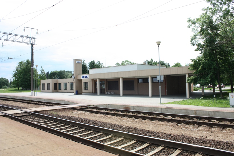 Railway station in Vievis, Elektrėnai municipality, Lithuania